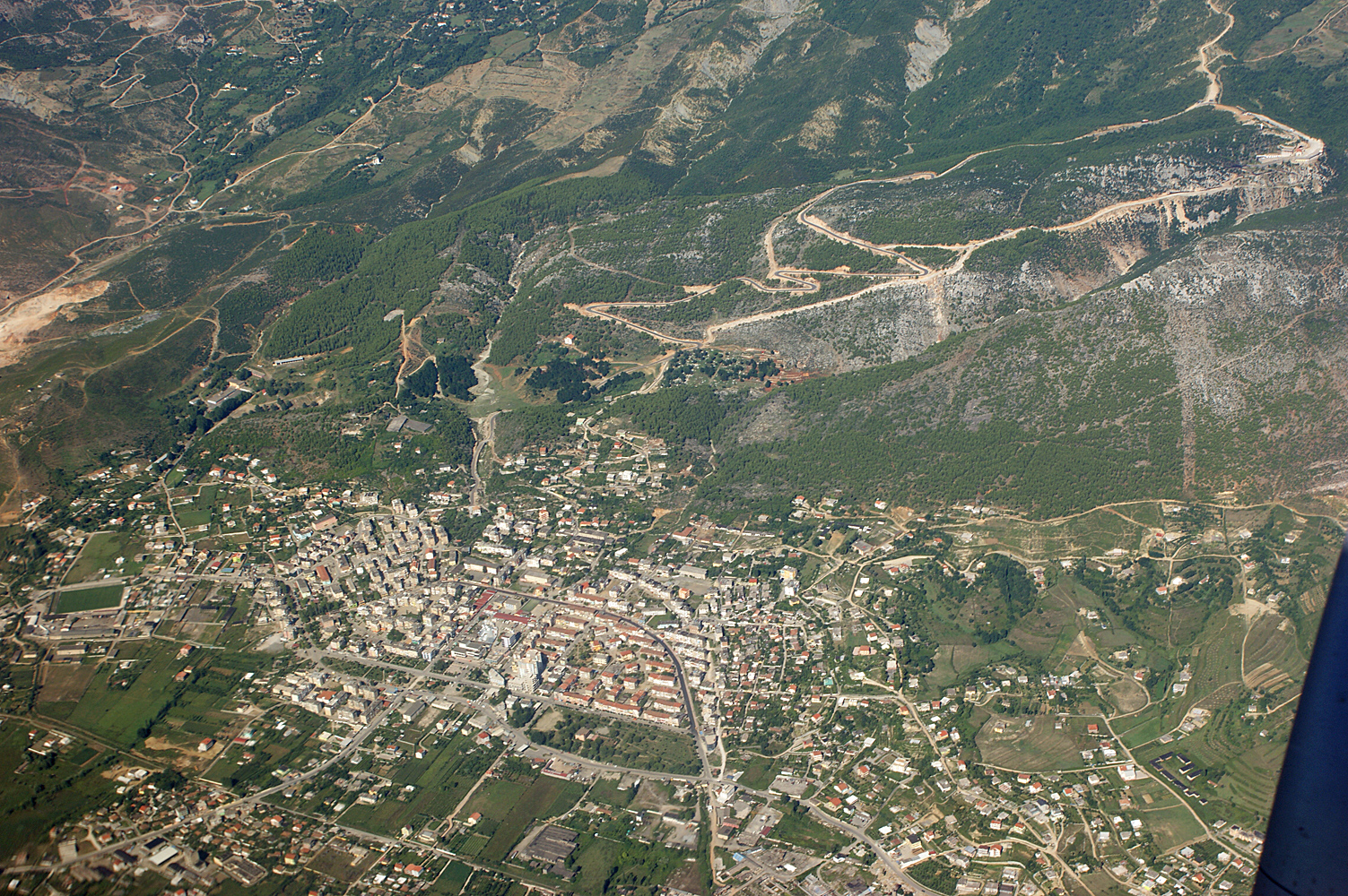 Town of Laç in Albania seen from an airplane. The Church of St. Anthony in the upper right corner.